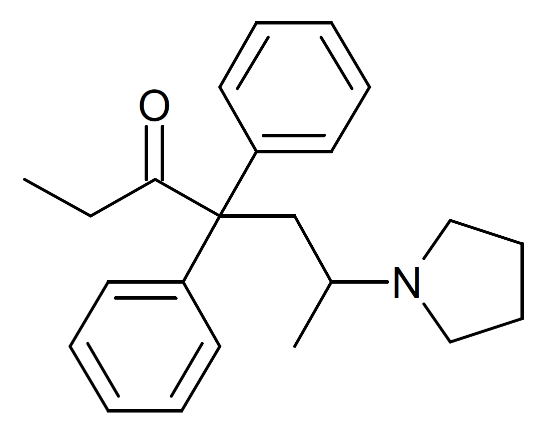 Structure of pyrrolidine homologue of dipipanone